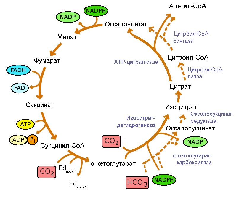 A pathway diagram of the reductive TCA cycle.